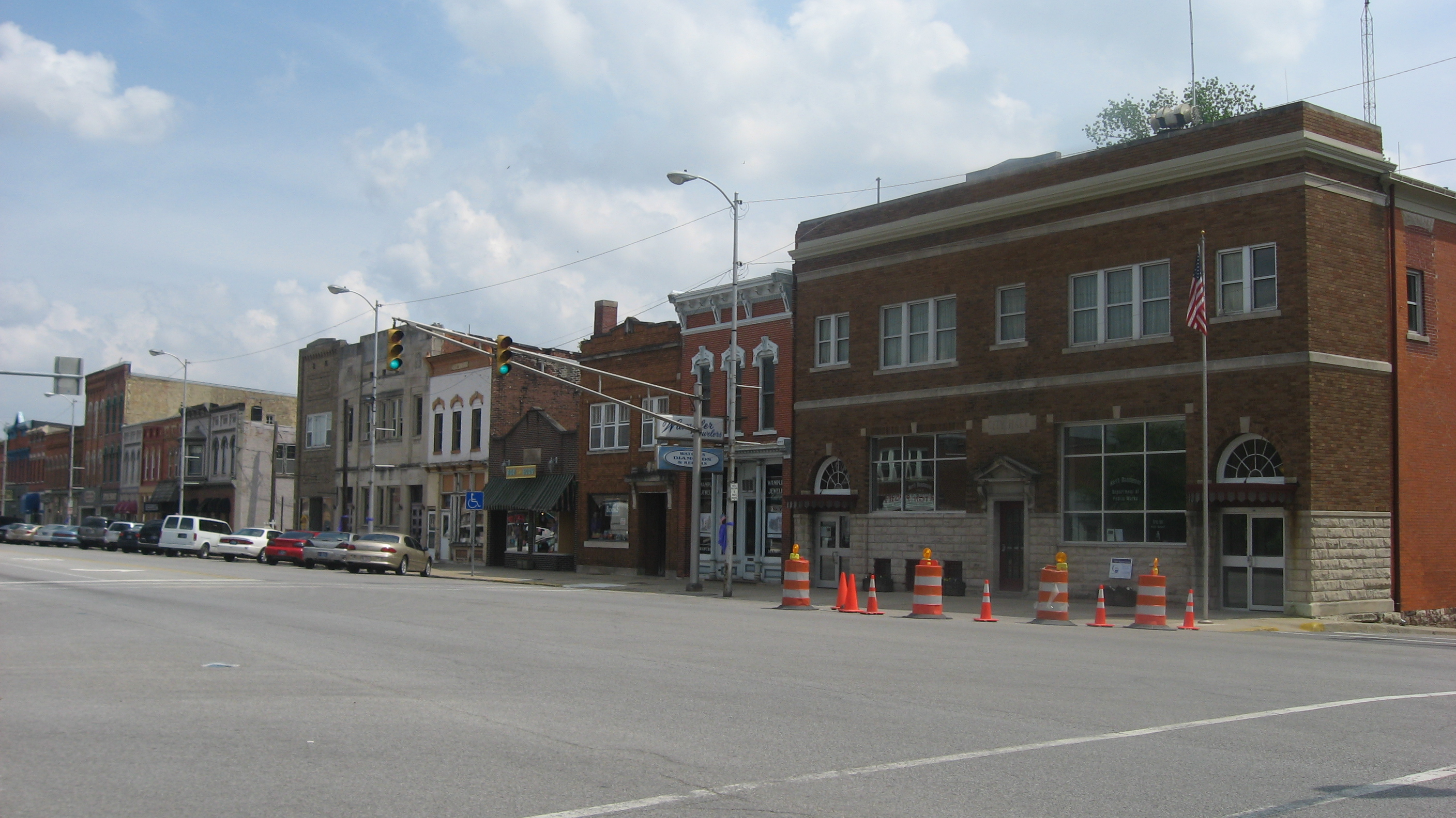 Buildings on the southern side of the 100 block of E. Main Street (State Road 114) in downtown North Manchester, Indiana, United States. This block of Main is part of the North Manchester Historic District, a historic district that is listed on the National Register of Historic Places.